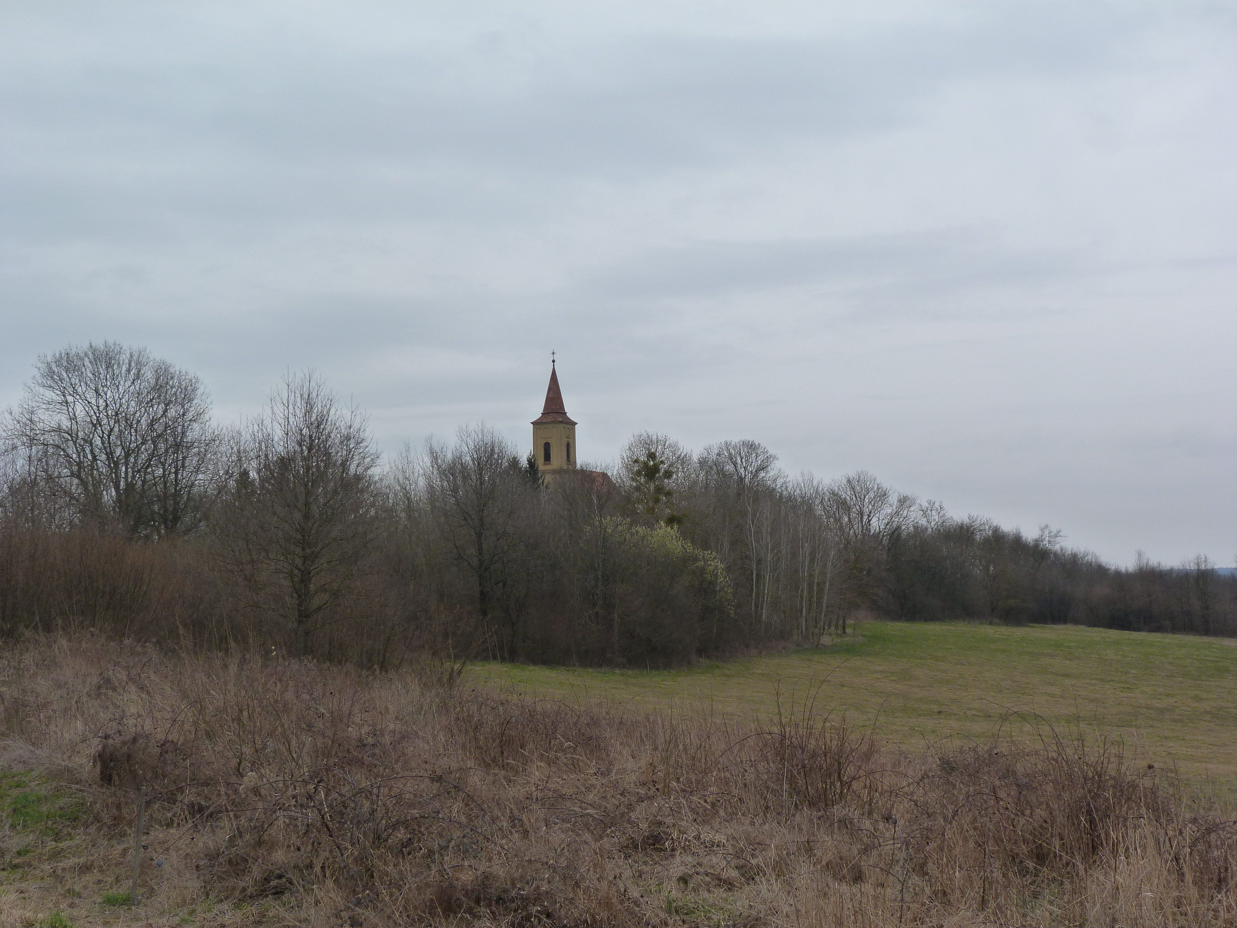 Live on the 25th of March, 2015. Szentgyörgyvölgy, Hungary. 7500 years old Szentgyörgyvölgy cow was discovered here. Varga Géza writing historian solved the writing on it. ©© Derzsi Elekes Andor, Budapest, 2015, Published in the Metapolisz DVD line. You are authorised to use this photo under Creative Commons – even for commercial, for profit purposes. The photo must be attributed to Derzsi Elekes Andor. All of the photos and vids in the Metapolisz DVD line are under Creative Commons and can be used even for commercial – for profit – purposes. Recommended Citation Derzsi Elekes Andor: Metapolisz DVD line